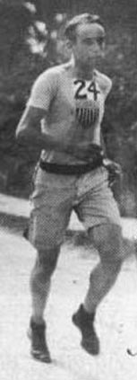 Joseph Forshaw, Athlet and medalwinner at the 1908 Olympic Games photography, adapted reproduction, no restrictions on use Copyright: free of charges